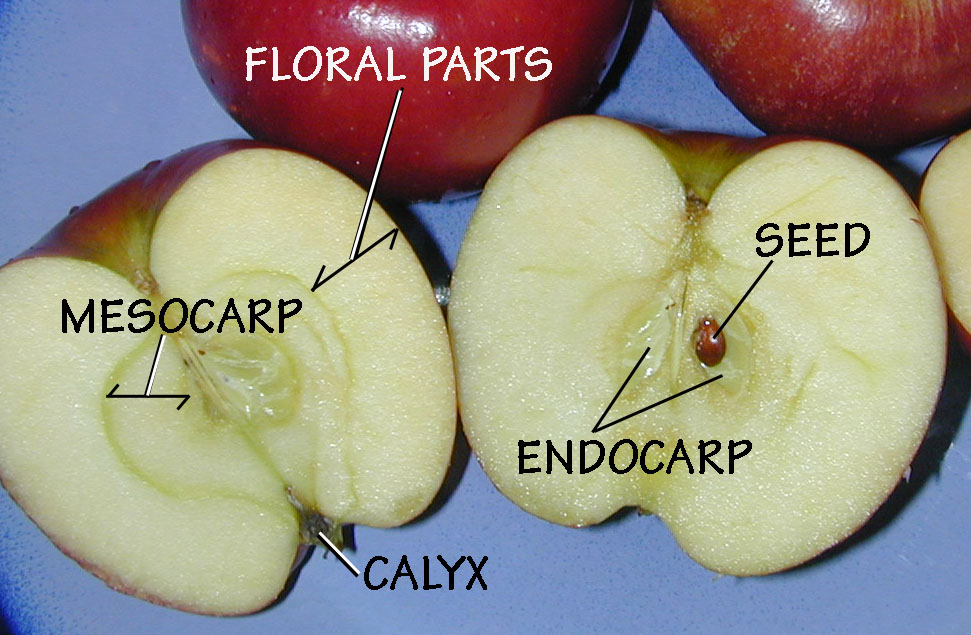 Labeled picture of pome (fruit type) or apple